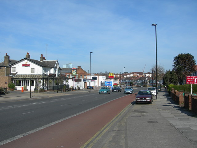 Hanger Lane, W5 Near the Fox and Goose pub / hotel, and showing (in the distance) Middlesex House. The yellow and red sign for the McDonalds, with its distinctive shape and colouring, is prominent out of all proportion to its size.